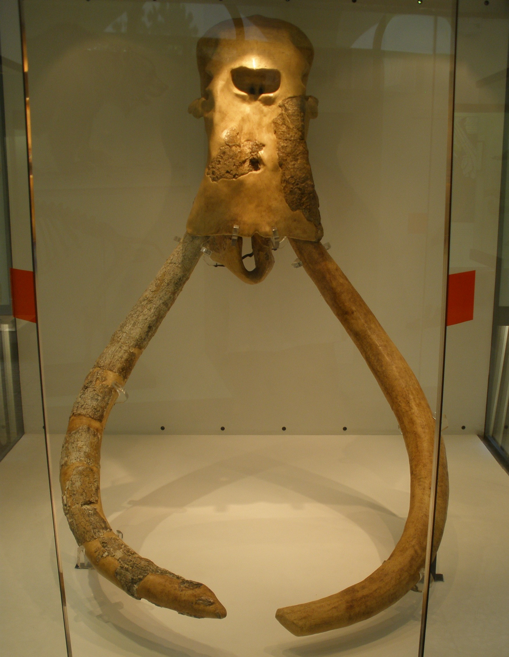 Mammuthus armeniacus Took the photo at Museo di Storia Naturale di Verona